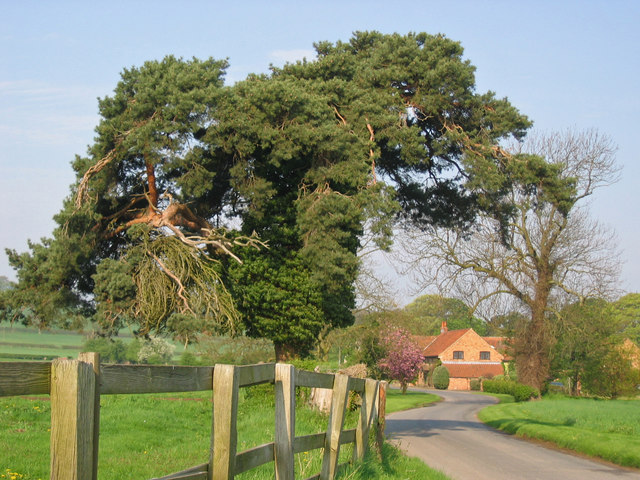 Thorpe Bassett. A NW view through the village.